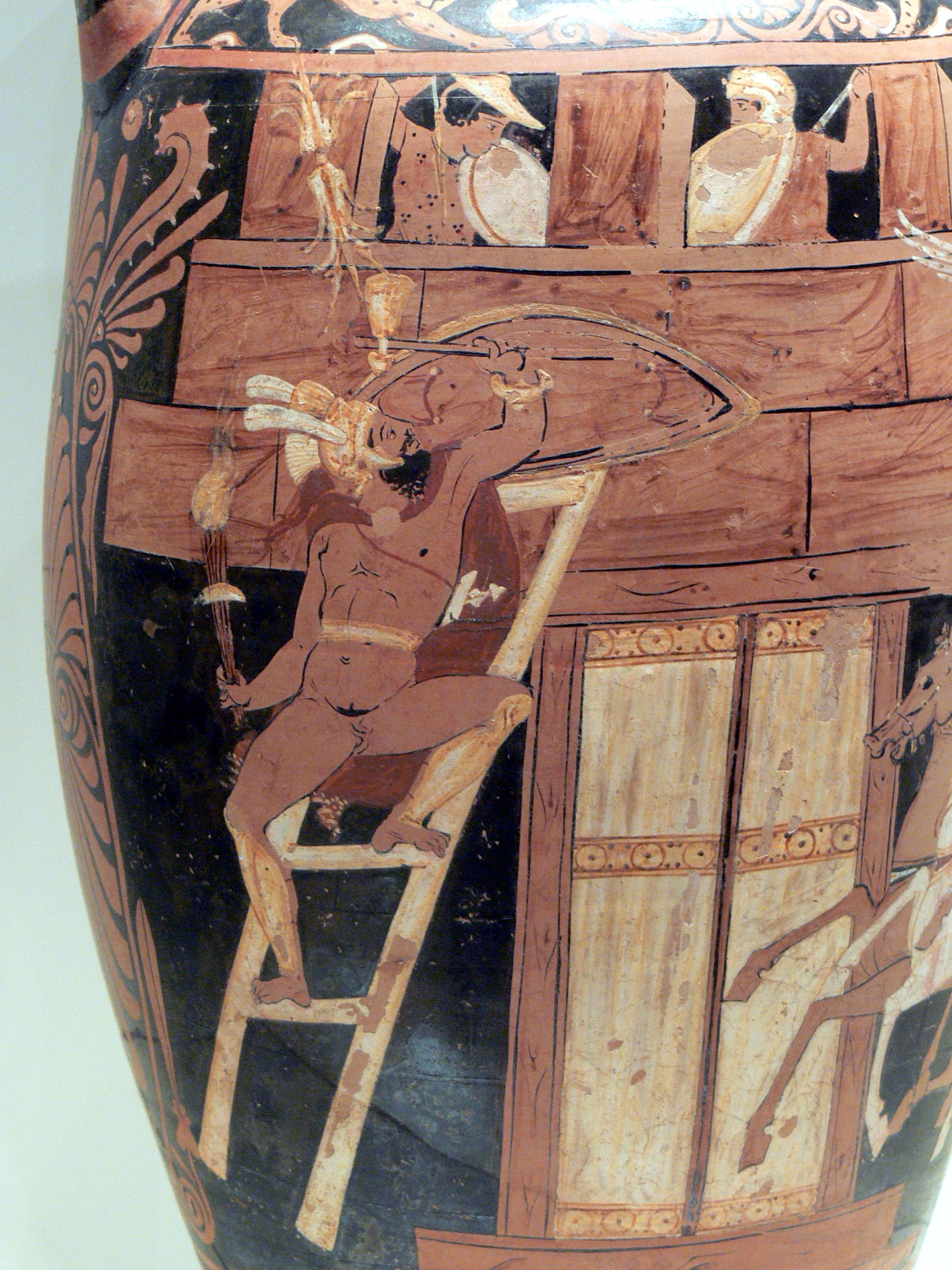 Scene from The Seven against Thebes by Aeschylus: Capaneus scales the city walls to overthrow King Creon who looks down from the battlements. Campanian red-figure neck-amphora, ca. 340 BC.